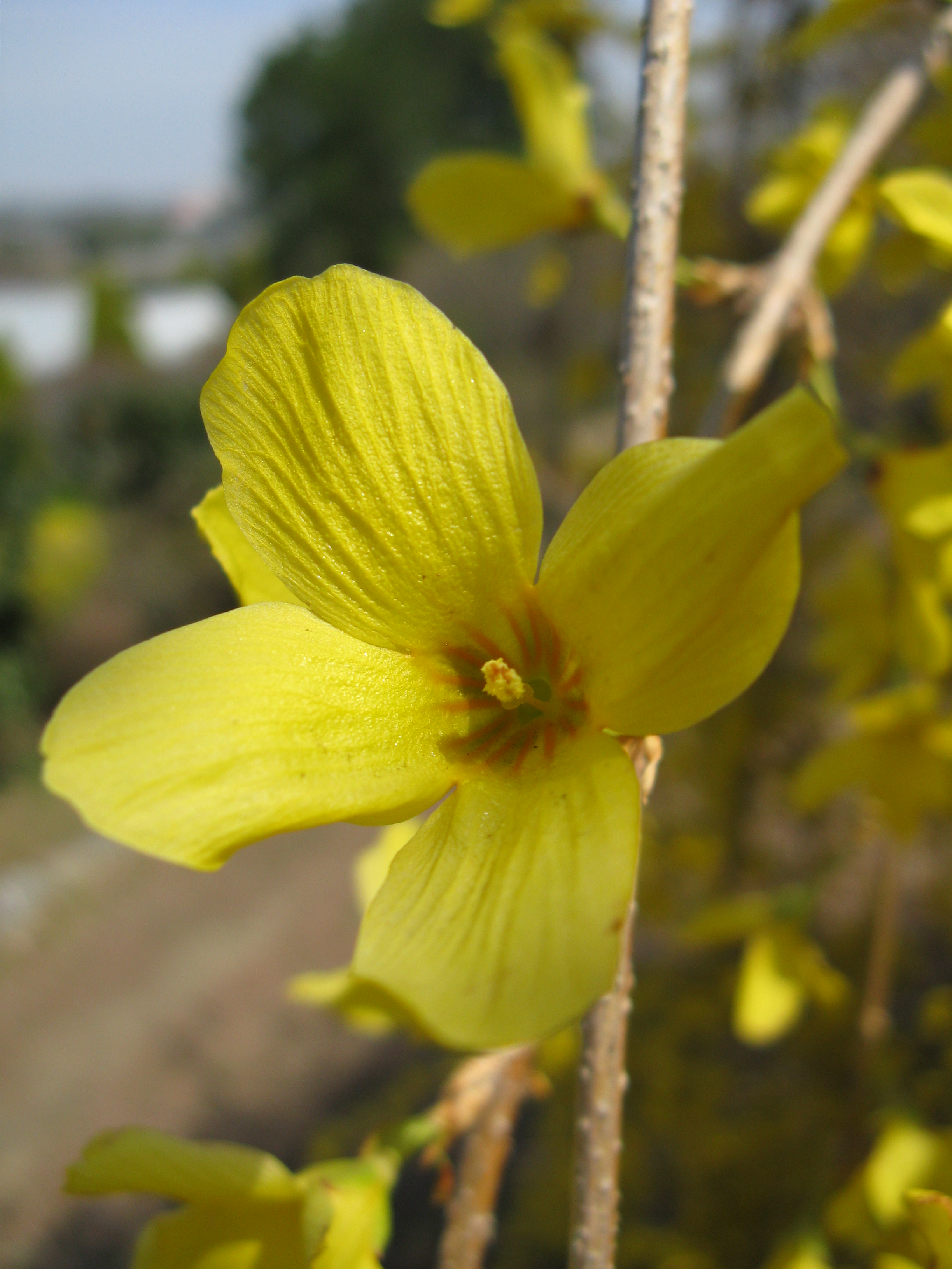 Forsythia suspensa